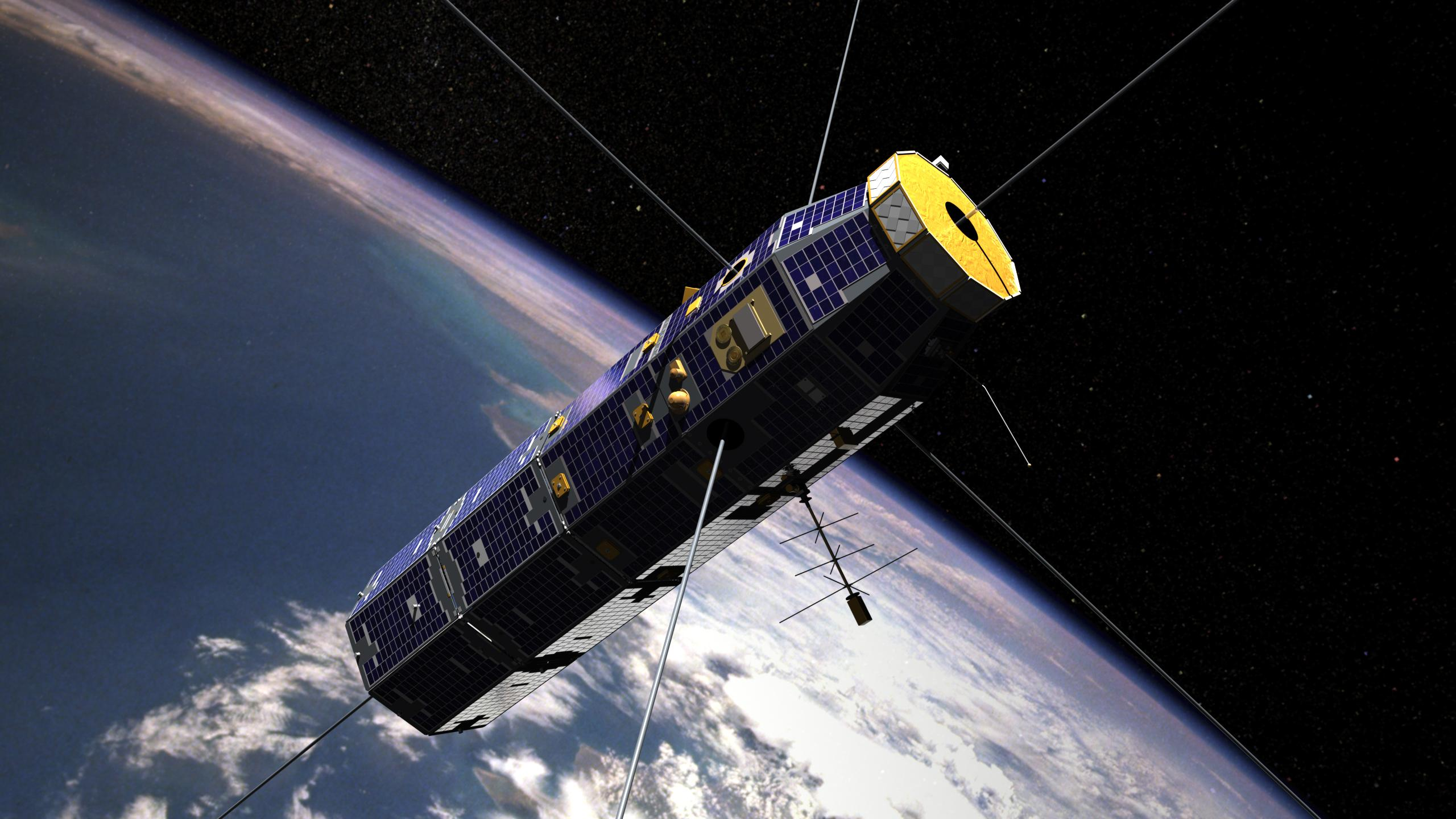 U.S. Air Force's Communications/Navigation Outage Forecast System (C/NOFS)